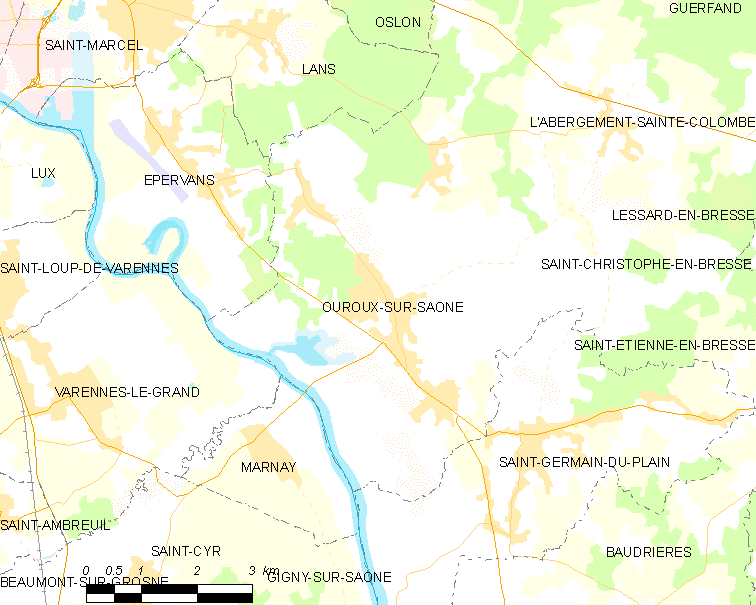 Map of French municipality